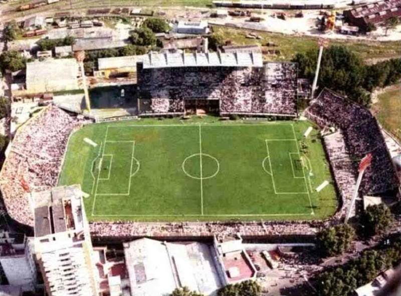 Aerial view of the FC Oeste stadium, from Avellaneda street.